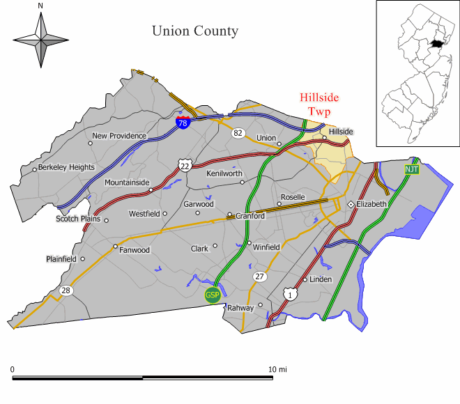 Source: Jim Irwin Original work by Jim Irwin, December 2005.